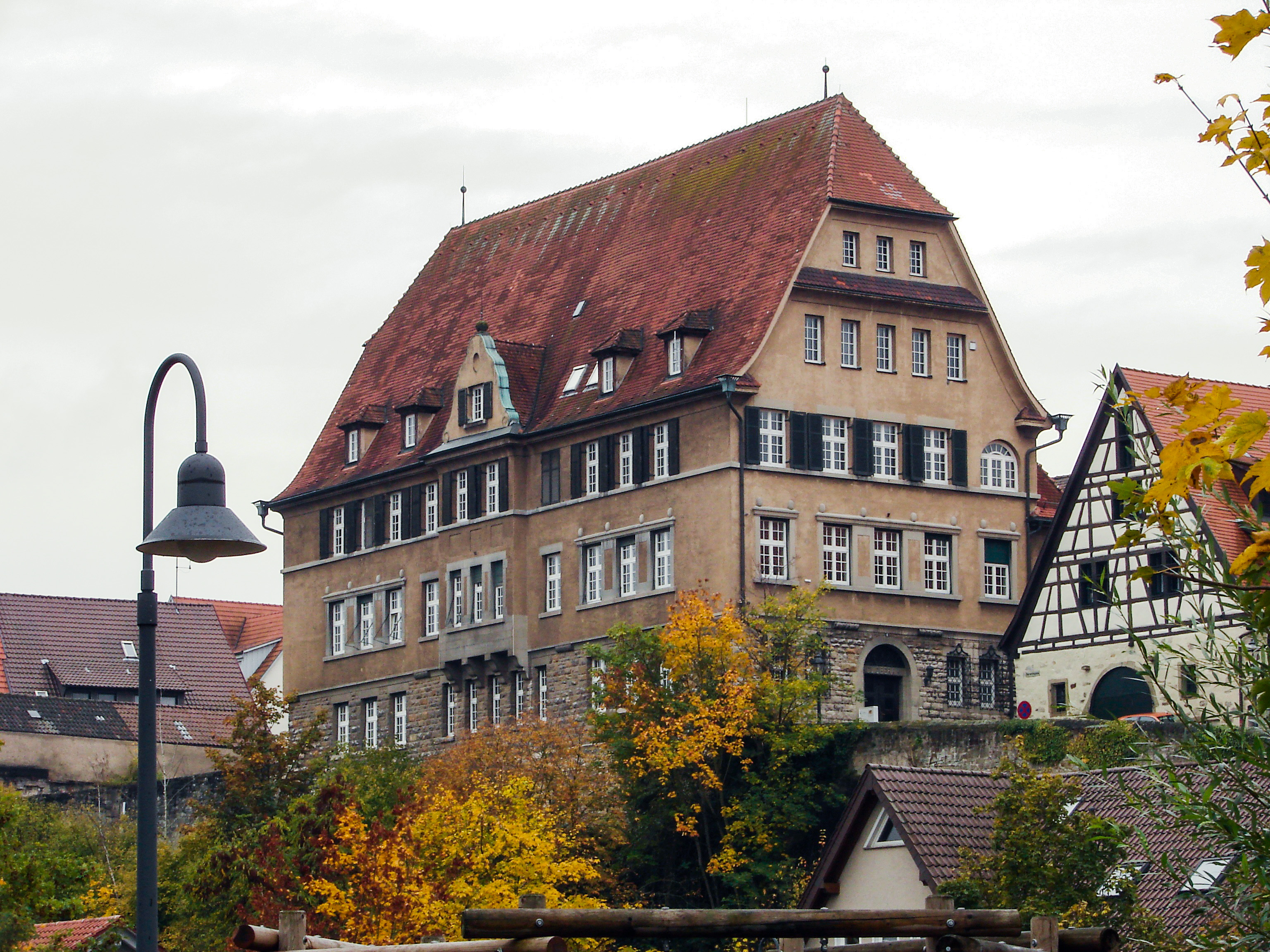 Besigheim, Germany, former district authority house (Oberamt)